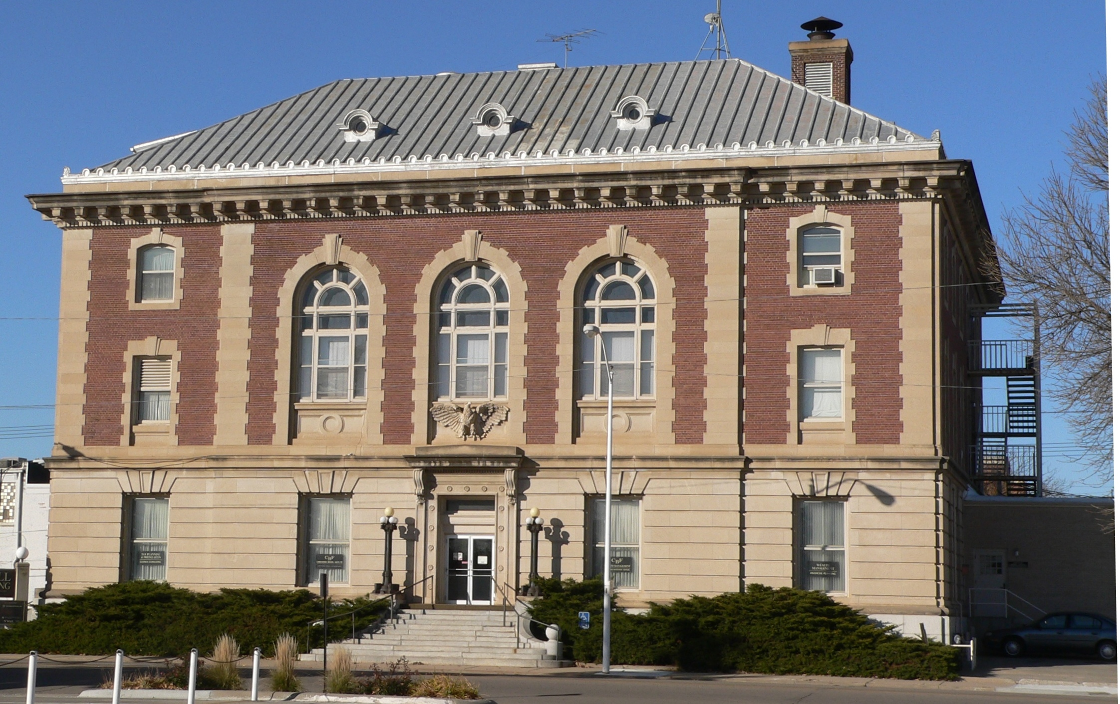 McMill Building, located at 125 S. 4th St., Norfolk, Nebraska, seen from the south. The building was originally the U.S. Post Office and Courthouse; it was designed by architect James Knox Taylor in Second Renaissance Revival style, and built in 1903. It currently houses several businesses. The name "McMill" may derive from the date "MCMIII" over the west door.